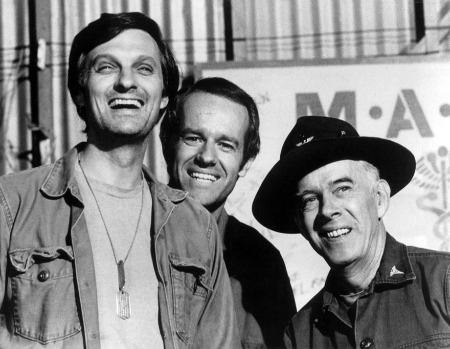 Publicity photo of some M*A*S*H cast members for 1975-Alan Alda, Mike Farrell and Harry Morgan. This season Morgan joined the show as Colonel Potter.